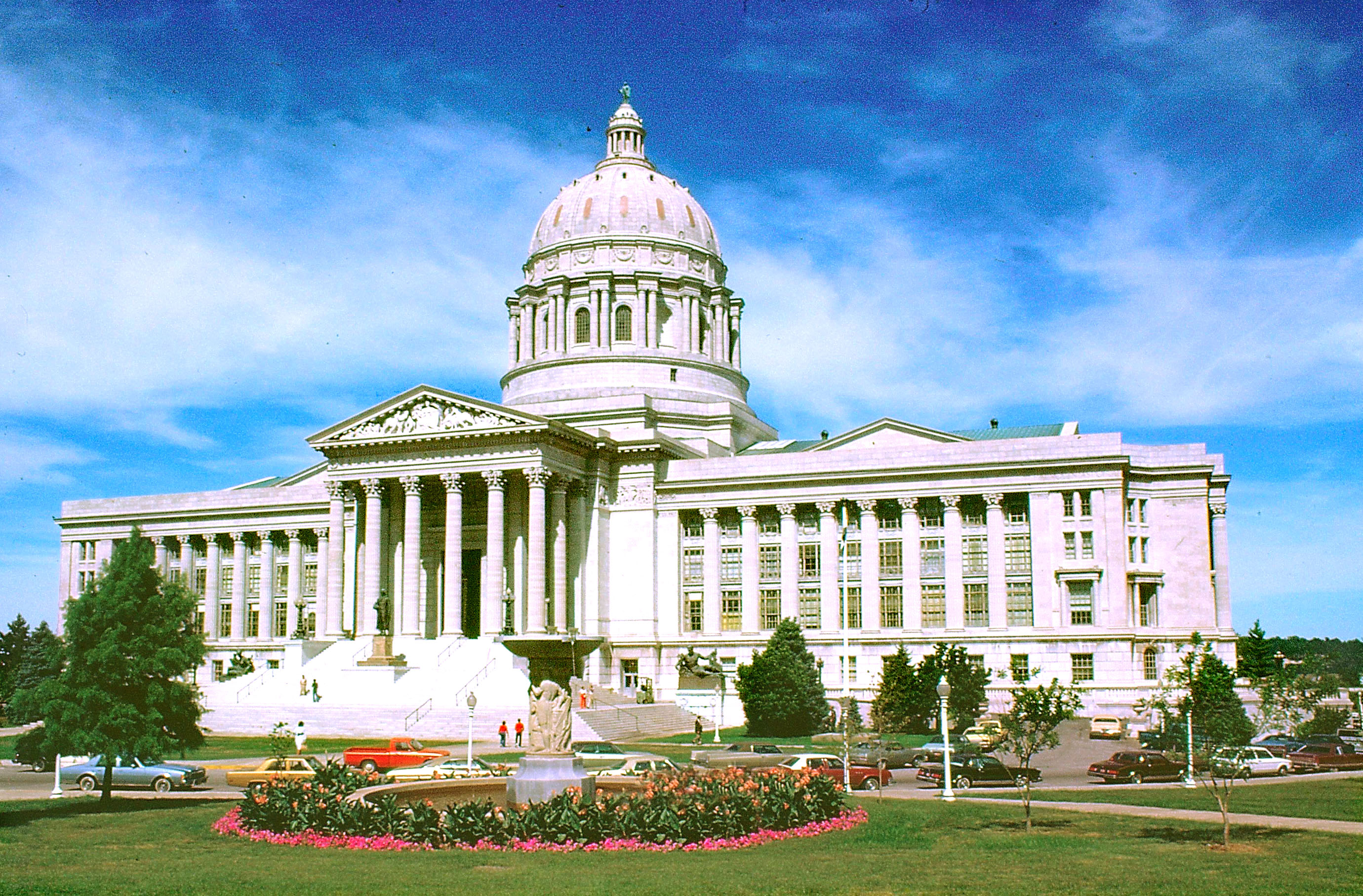 The Missouri State Capitol Building in Jefferson City MO